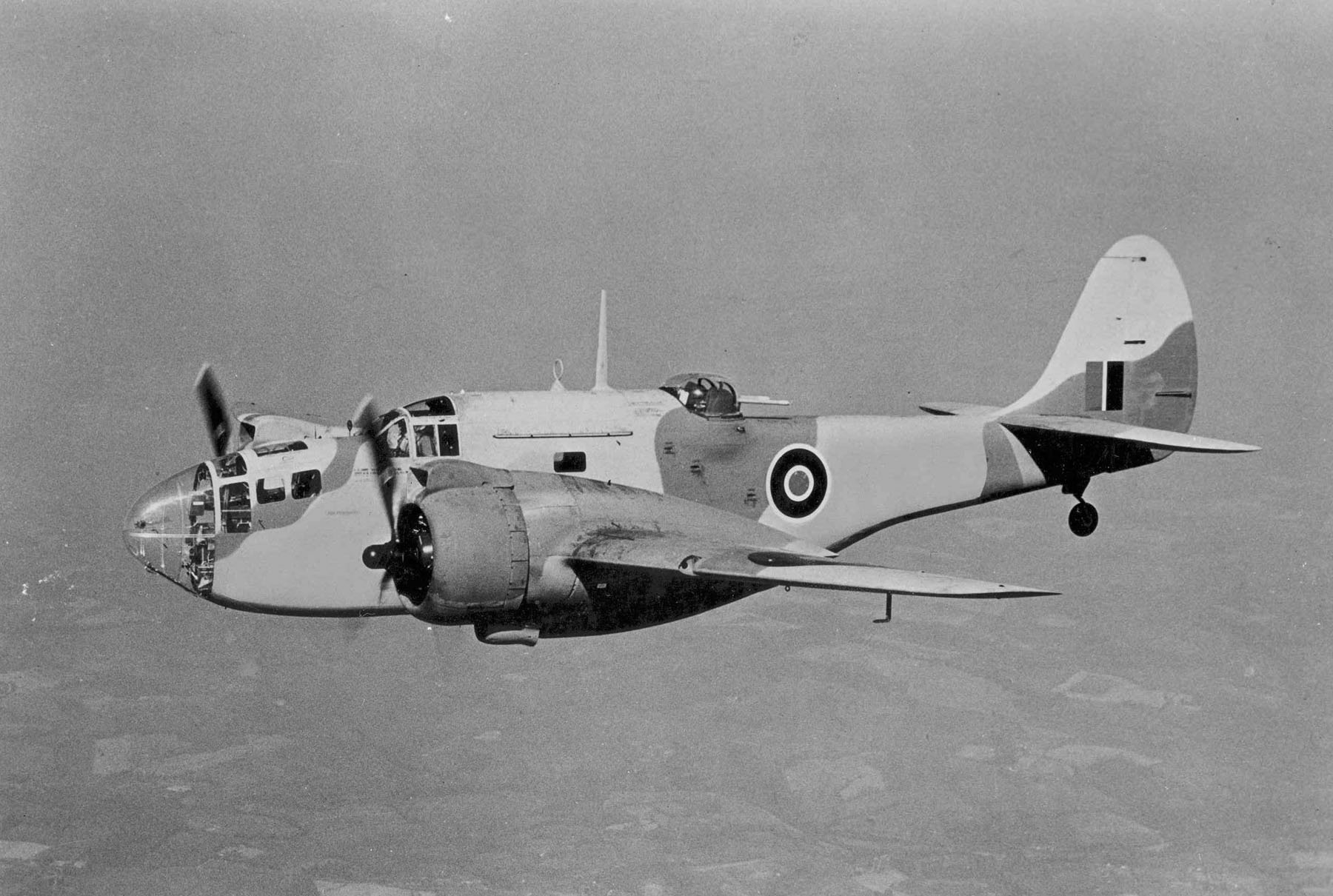 A Royal Air Force Martin Baltimore IV/V bomber. Most aircraft were delivered to Commonwealth countries, a few were kept in the U.S. under the USAAF designation A-30.